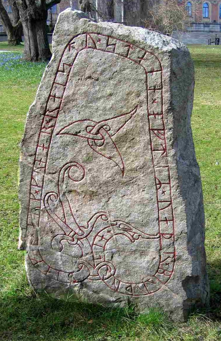 This is an image of a runestone standing in the University Park of Uppsala in Sweden. The stone features runes and a triquetra.